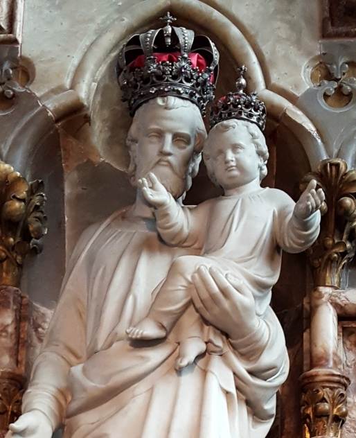 Saint Joseph crowned by Cardinal Manning under Pope Pius IX.